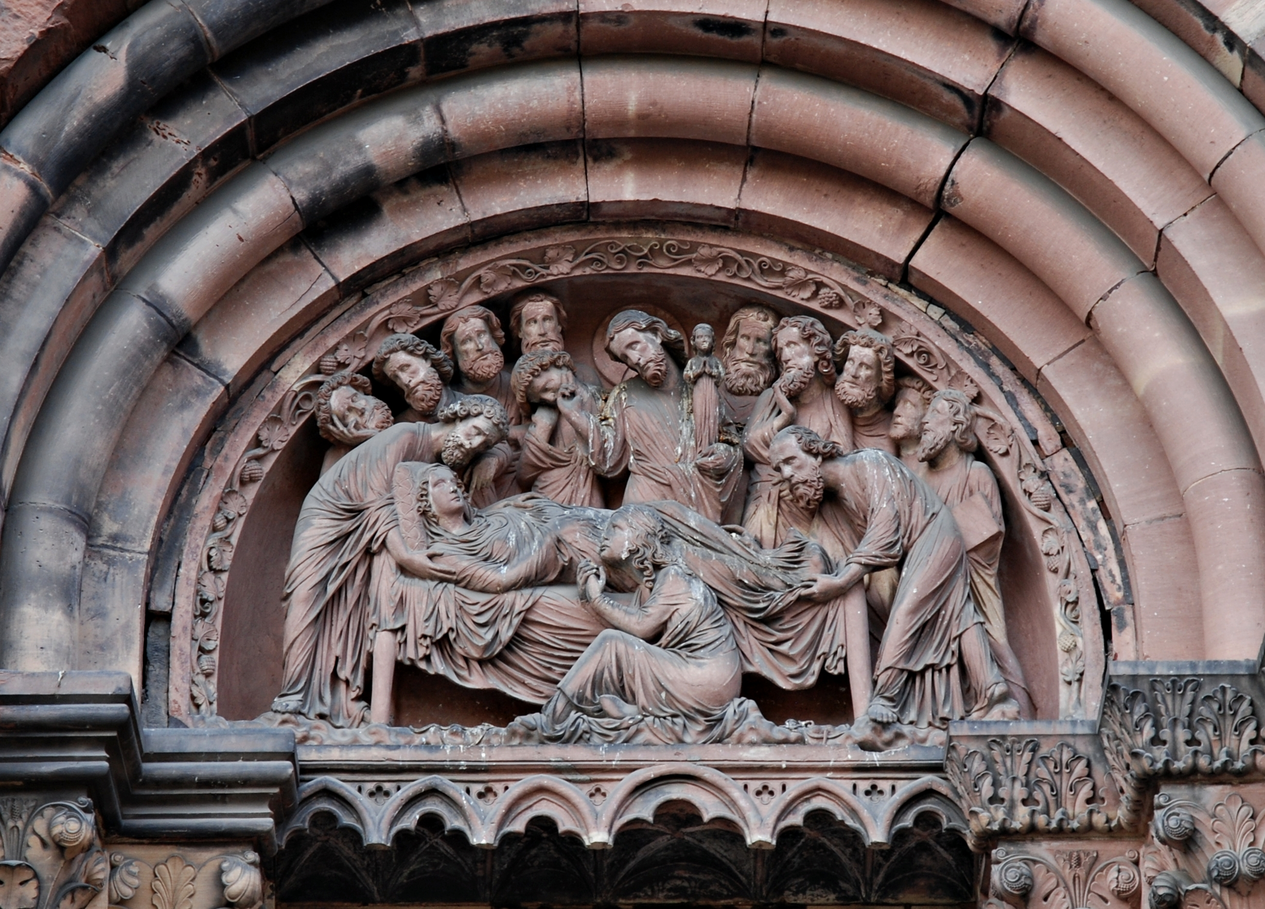 South portal of Notre-Dame cathedral in Strasbourg